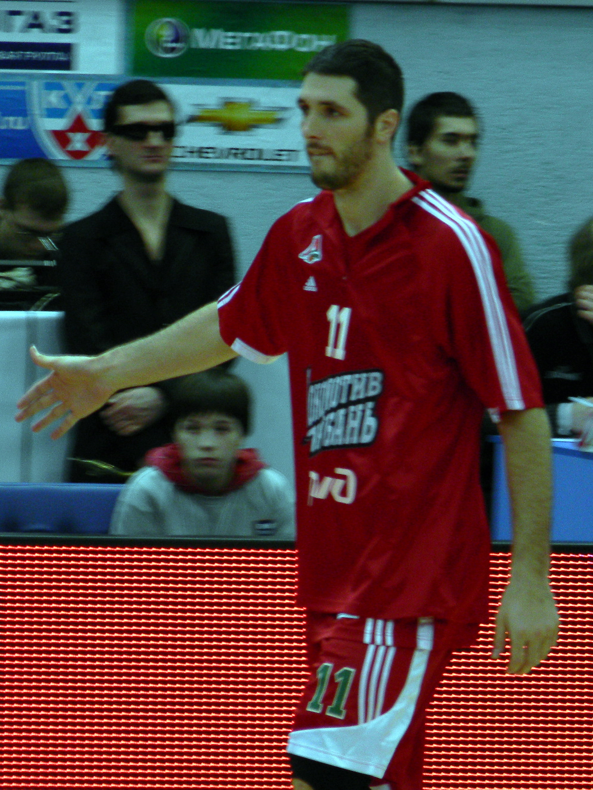 Mike Wilkinson, american Basketball player, at all-star PBL game 2011